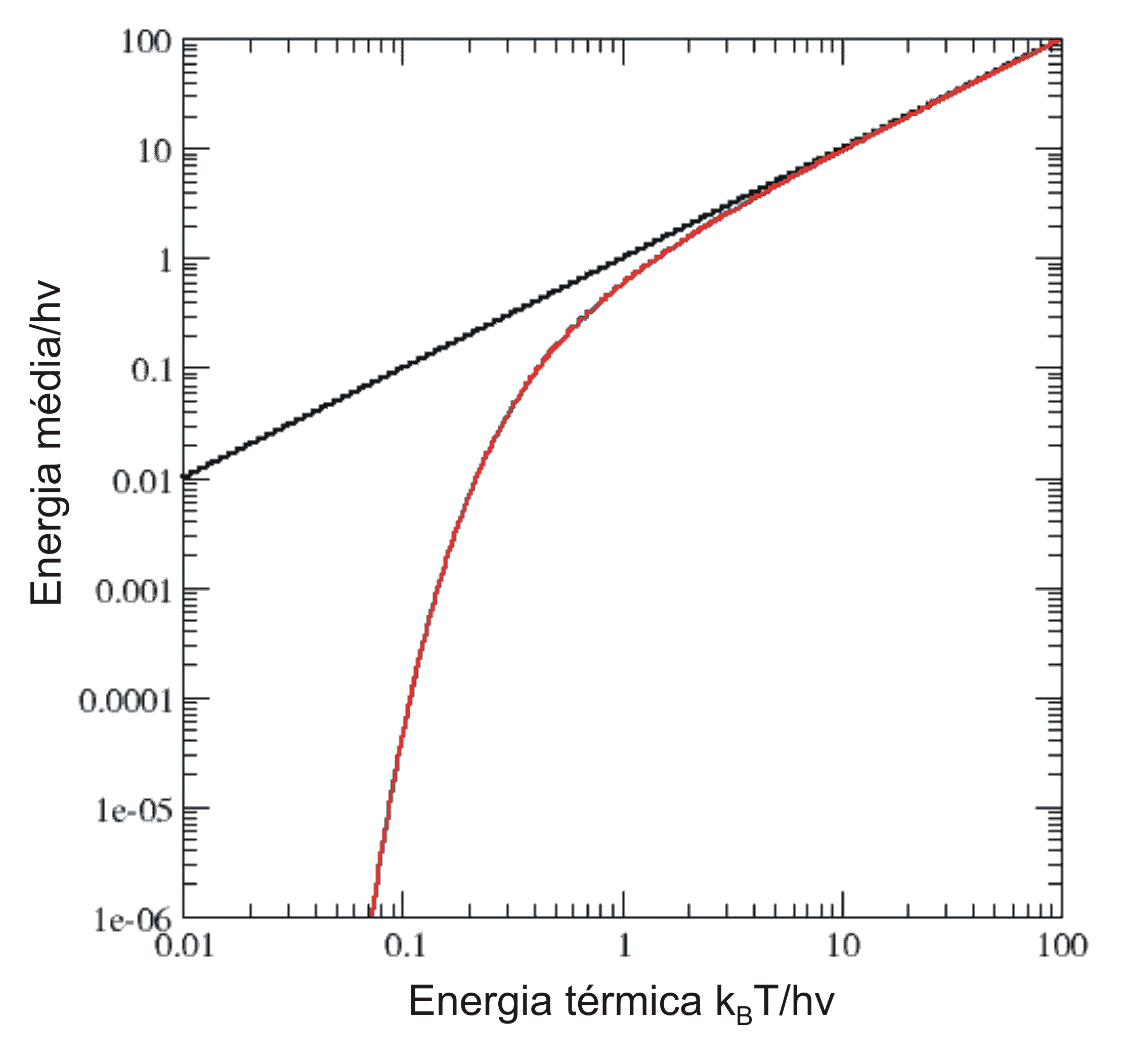 The figure plots the average energy of a quantum mechanical oscillator (in red) for different temperatures, and compares it with the value predicted by the equipartition theorem (in black). Made by me today (18 April 2007) using my own GPL software, and plotted using xmgrace, another GPL program. Released by me today under the GFDL.